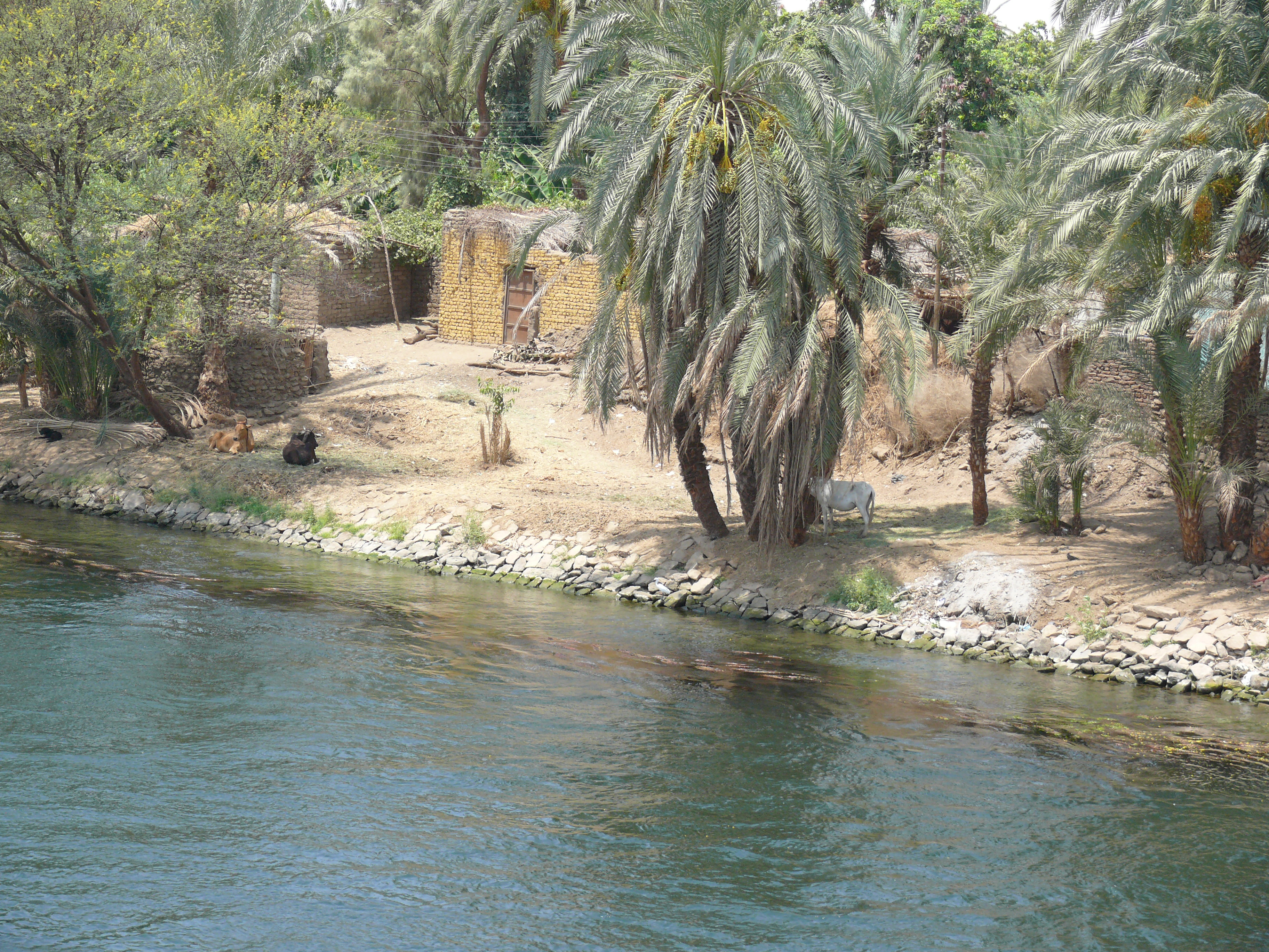 Banks of the River Nile between Edfu and Kom Ombo.